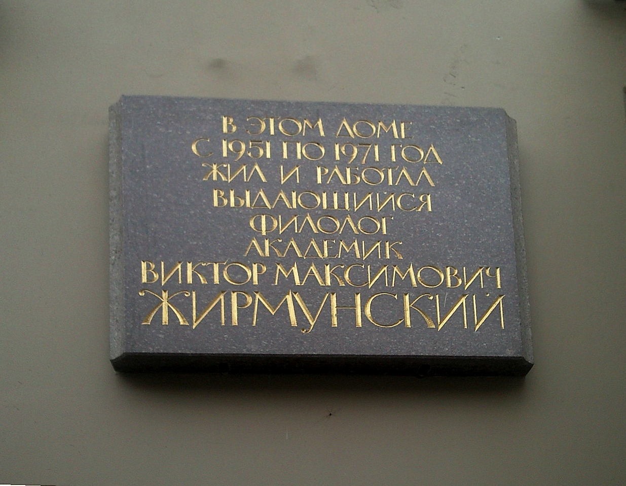 Zhirmunsky Plaque in St. Petersburg (Zagorodny Avenue)